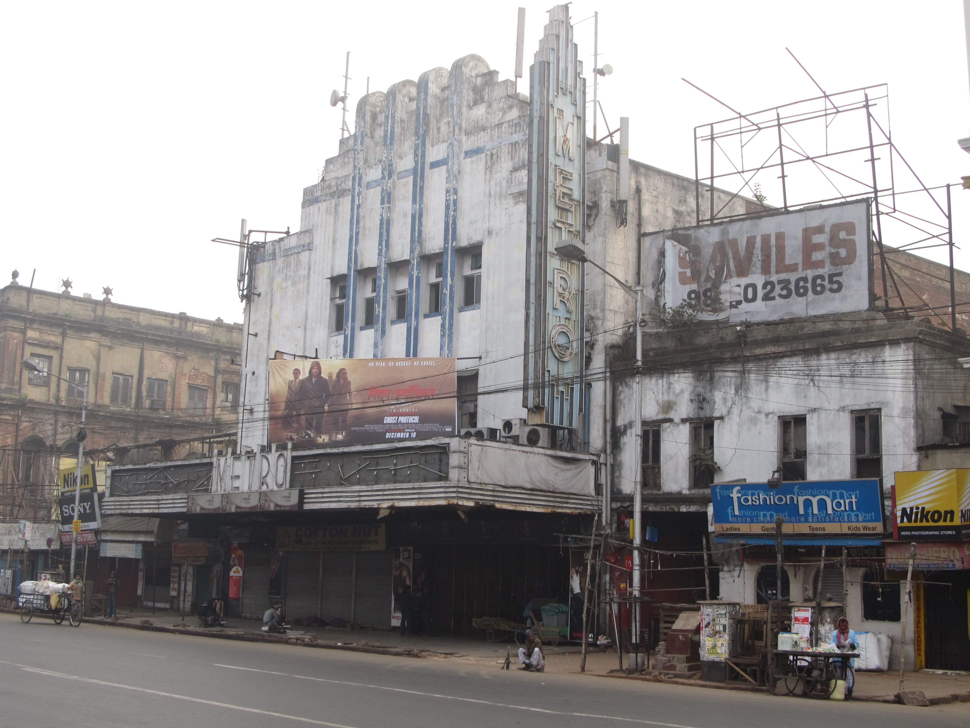 Kolkata